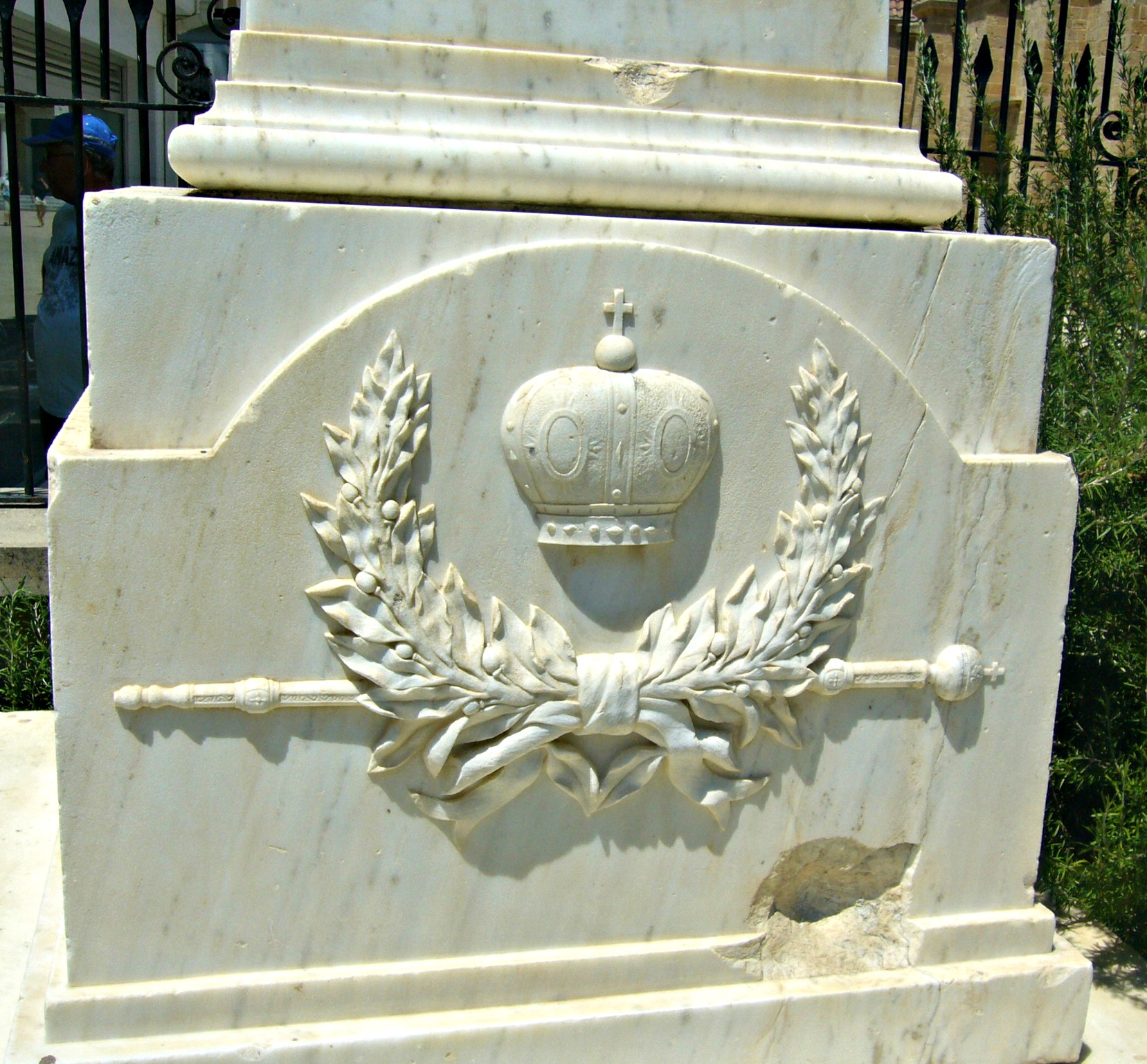 The symbol of the Cypriot Church under the bust of Archbishop Kyprianos in Nicosia